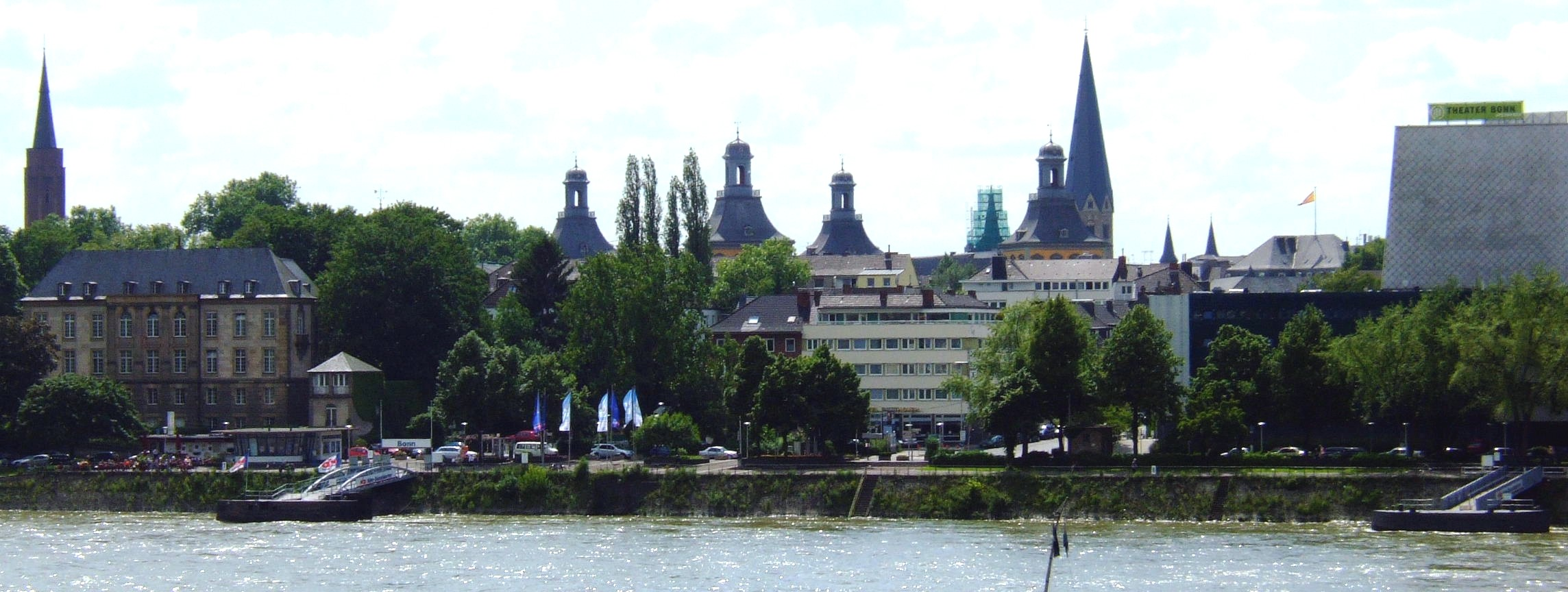 View on the Rhine and the historical centre of Bonn (Bonn-Zentrum).